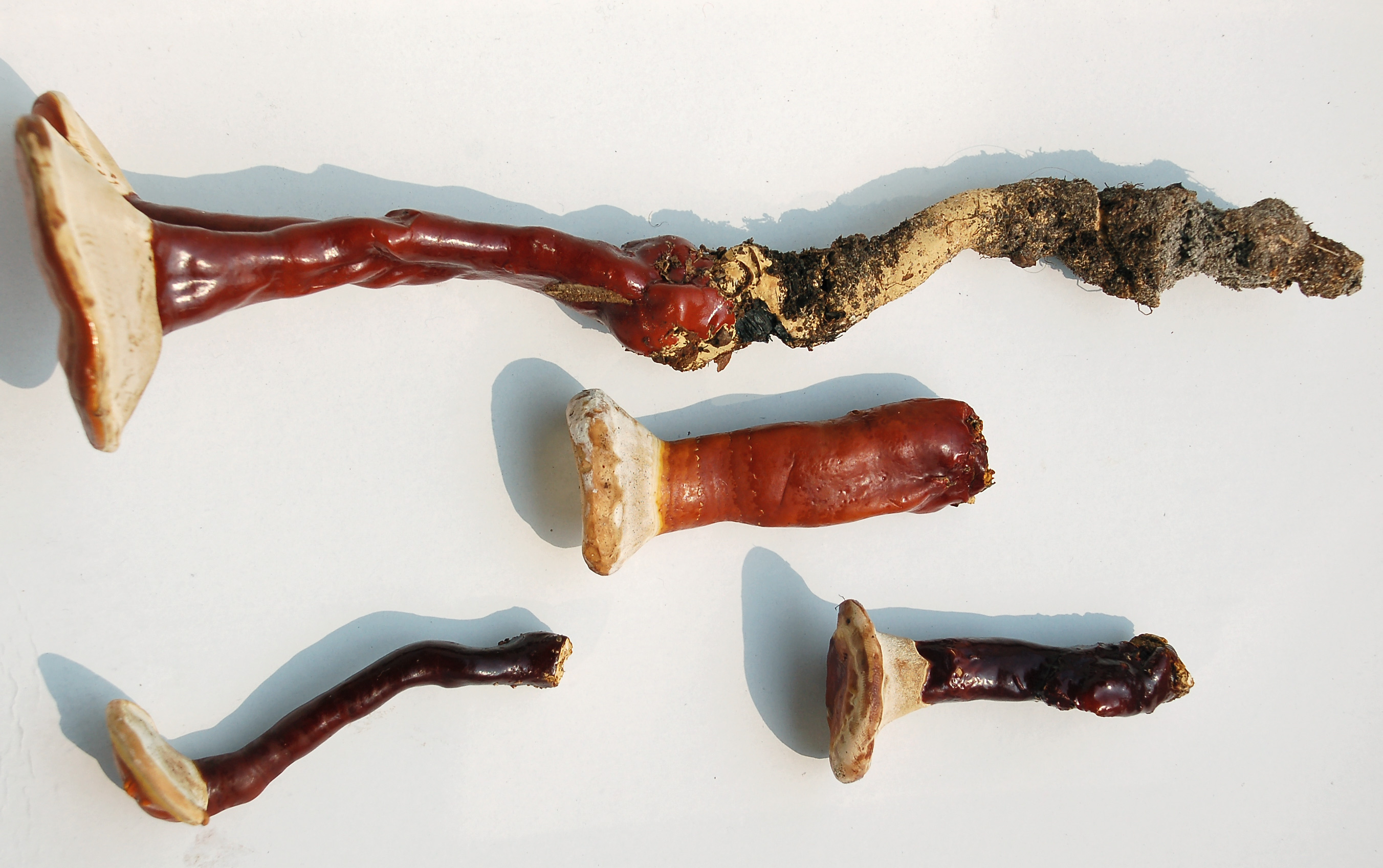 Ganoderma lucidum. Picked 14 aug 2010 near oak stump. Ukraine, Kiev Oblast, Fastiv raion